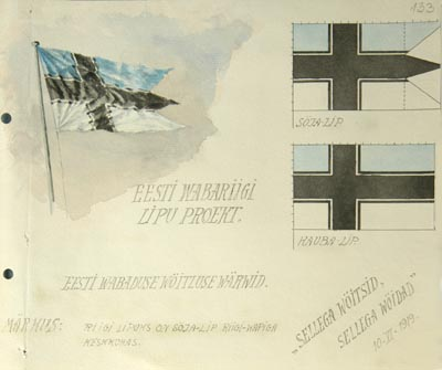 A version of the Estonian flag as a Nordic cross flag, proposed in 1919.